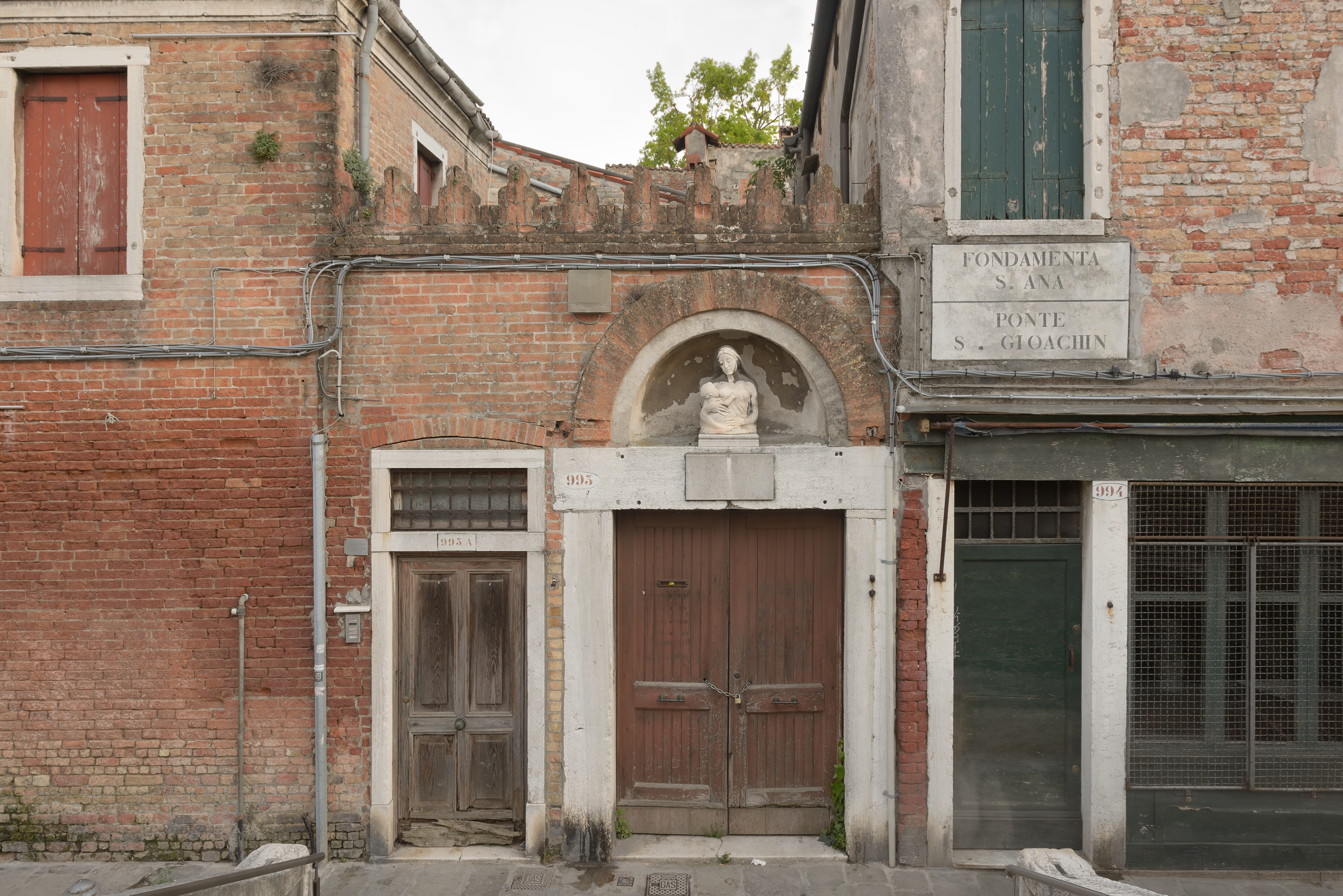 View from Ponte San Gioachin bridge on Rio di Sant'Anna in Venice.